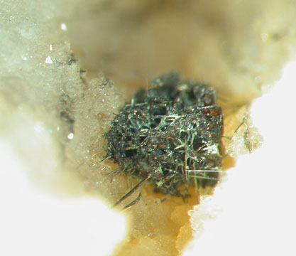 Millerite, Chalcopyrite, Calcite Locality: US 27 roadcut, Halls Gap, Lincoln County, Kentucky, USA (Locality at ) Size: 3.4 x 3.2 x 2.2 cm. An exposed geode lined with beige Calcite crystals is host to some small, bright metallic needles of the well known Nickel Suflide, Millerite. There is a group of almost reticulated Millerite crystals that have a geometric (preferential) pattern which have overgrown a single Chalcopyrite crystal in the vug. There is also another Chalcopyrite which has no Millerite coating it whatsoever. A very interesting specimen of this classic material from Kentucky. Ex. Richard Kosnar Collection.